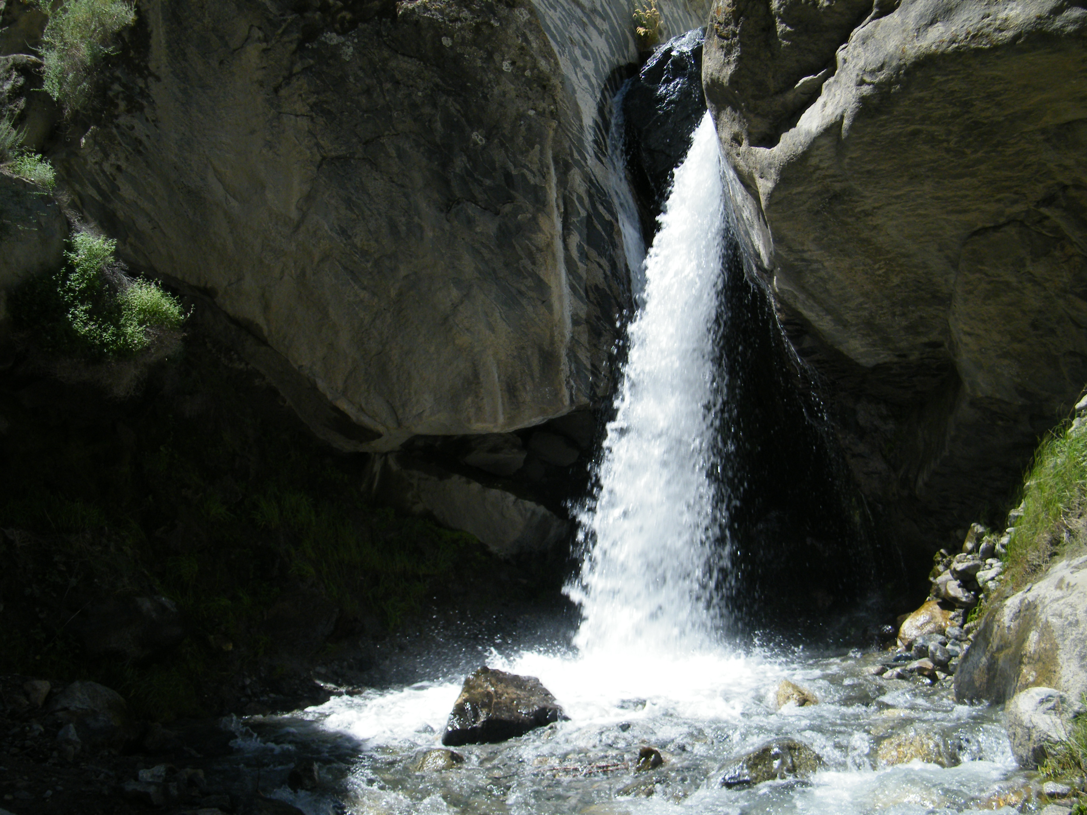 Waterfall in the Hoper Tourist Garden in the Ghizer District.